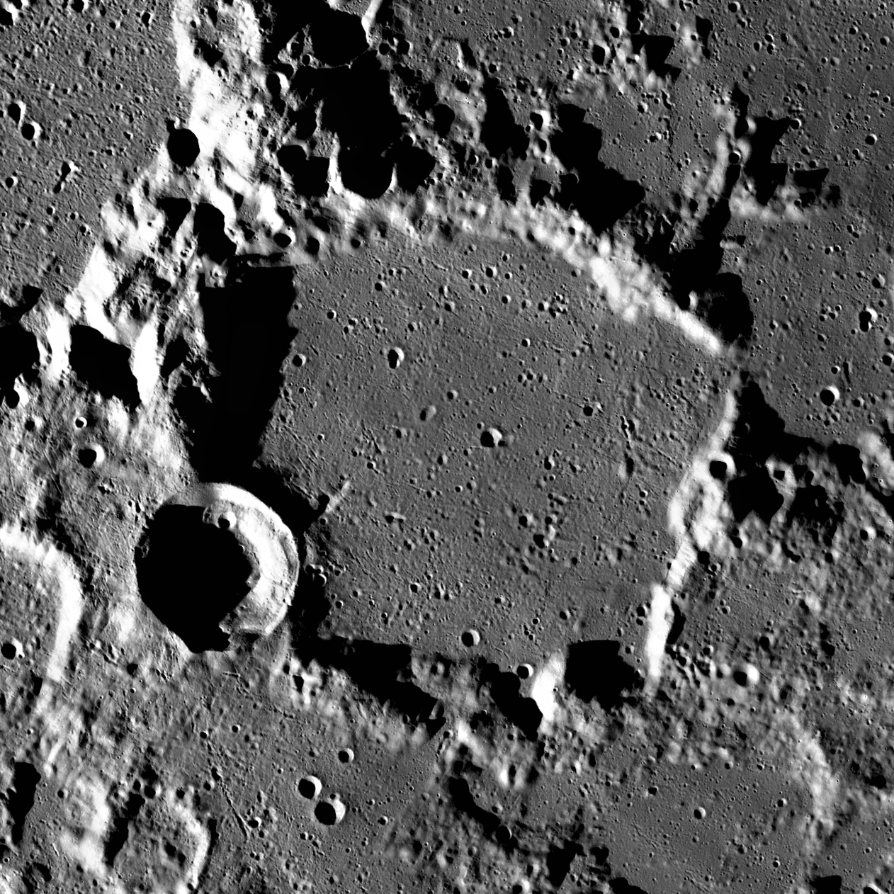 Crater Barrow on the Moon. Mosaic of photos by Lunar Reconnaissance Orbiter, made with Wide Angle Camera. Size of the image is 150×150 km, north is approximately up.